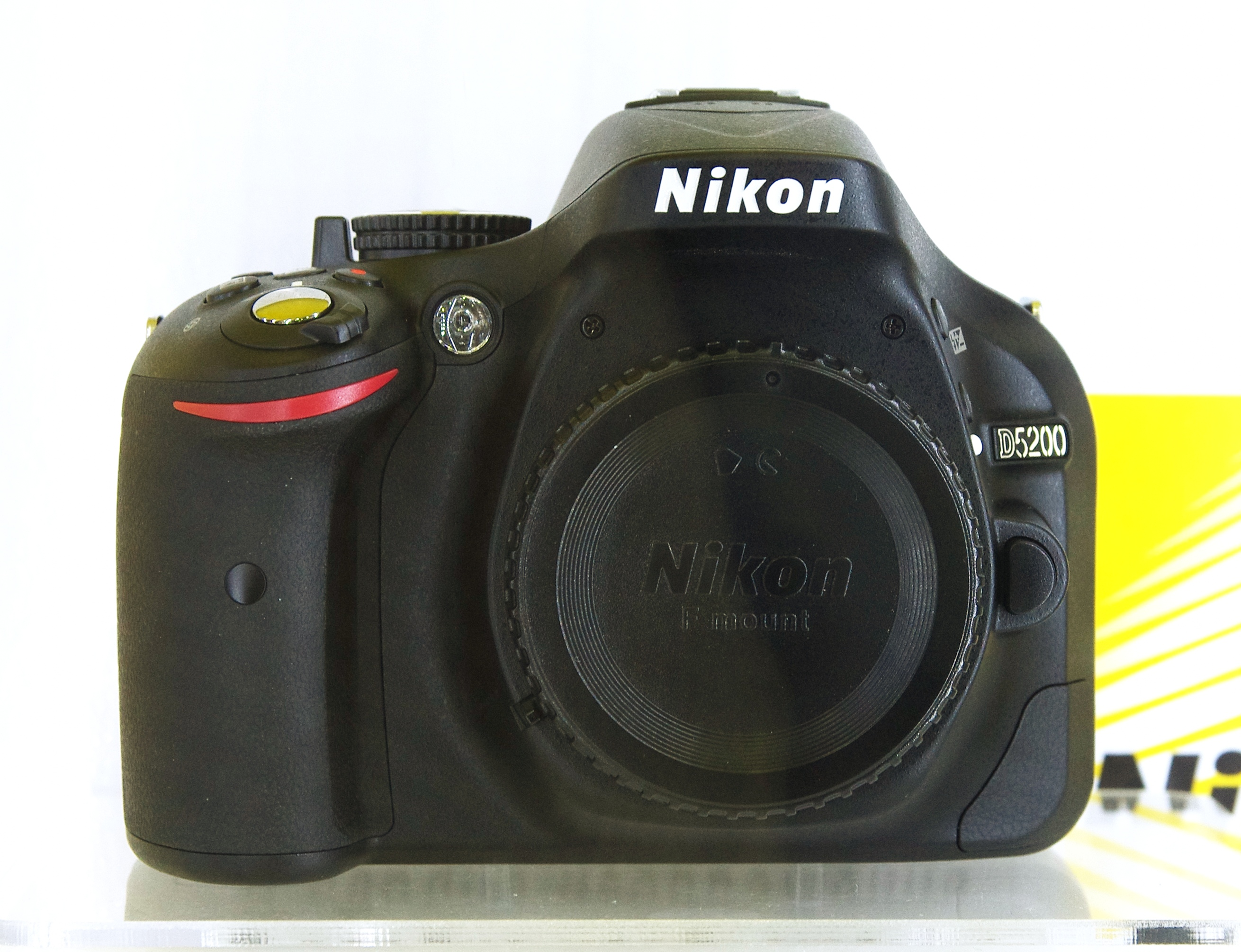 Nikon D5200 DSLR camera, body.